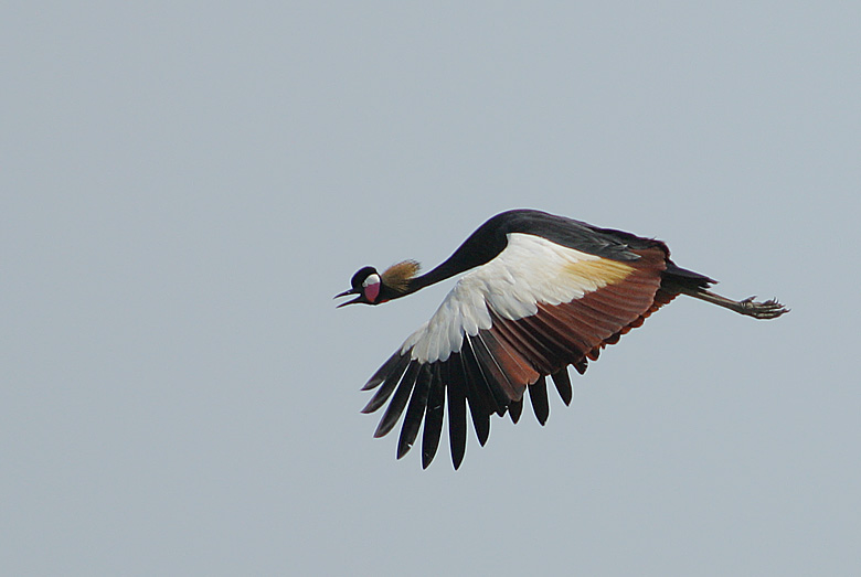 Adult in flight at Pirang, Gambia. This is a specacular but declining species distinct from the much commoner Grey Crowned Crane of Eastern & Southern Africa.